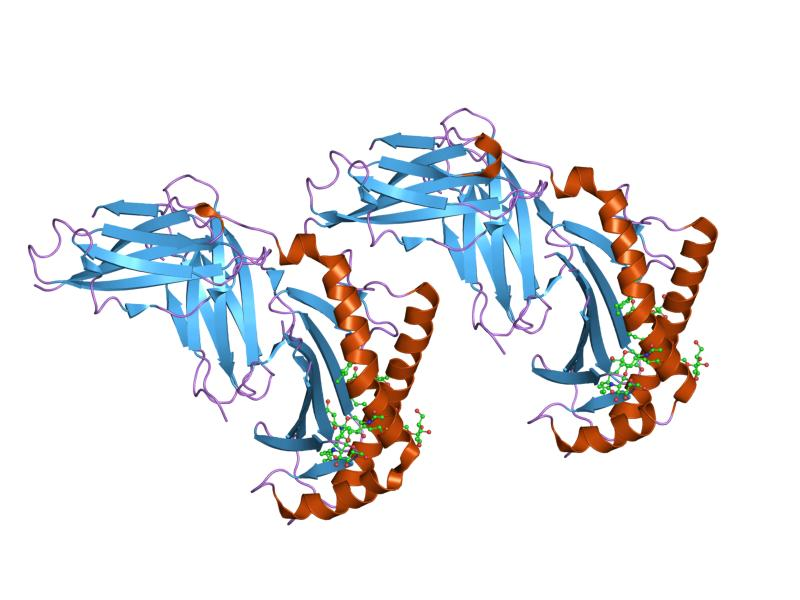 Cartoon representation of the molecular structure of protein registered with 1z5l code.